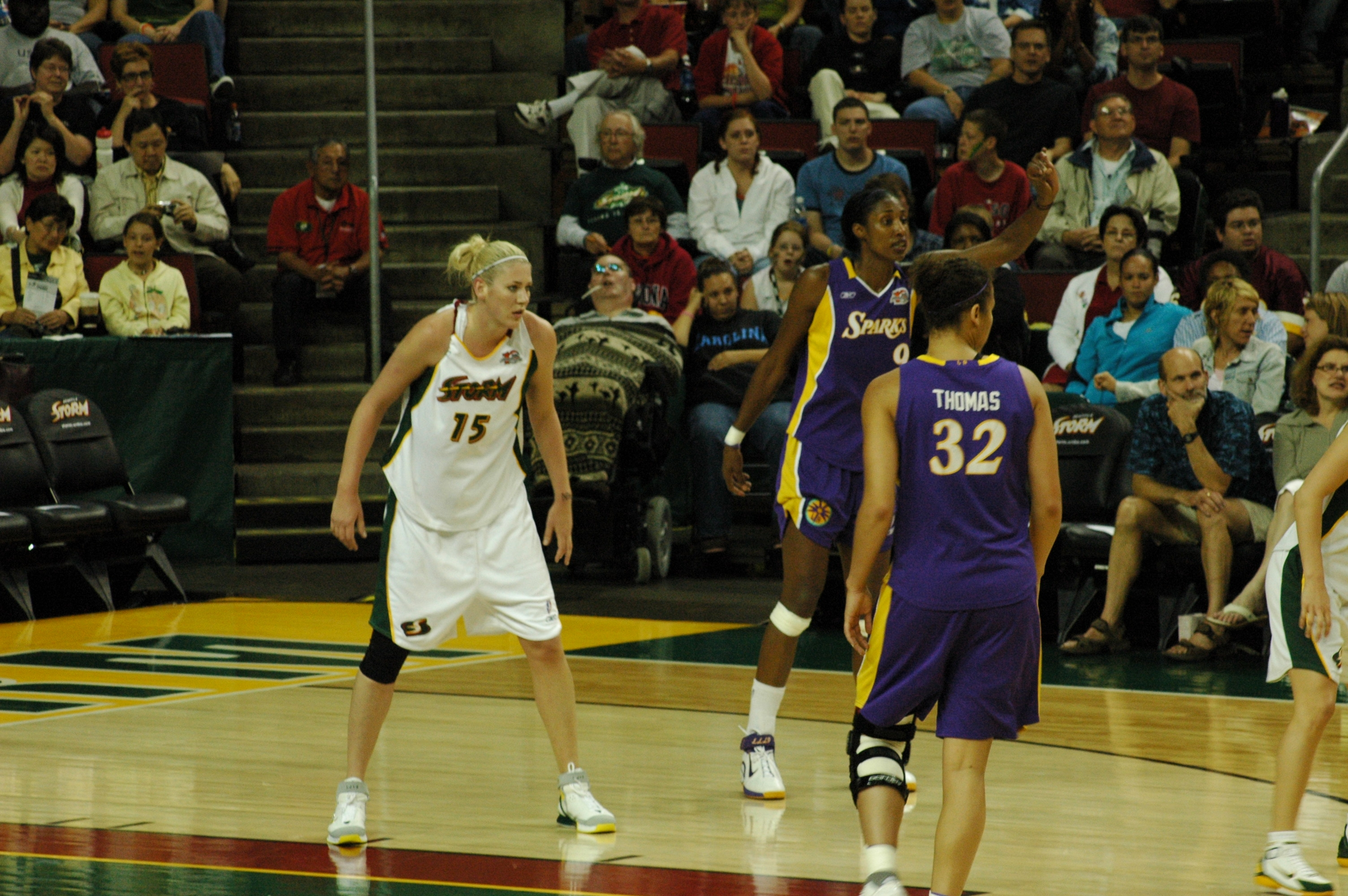 Australian basketball player Lauren Jackson.